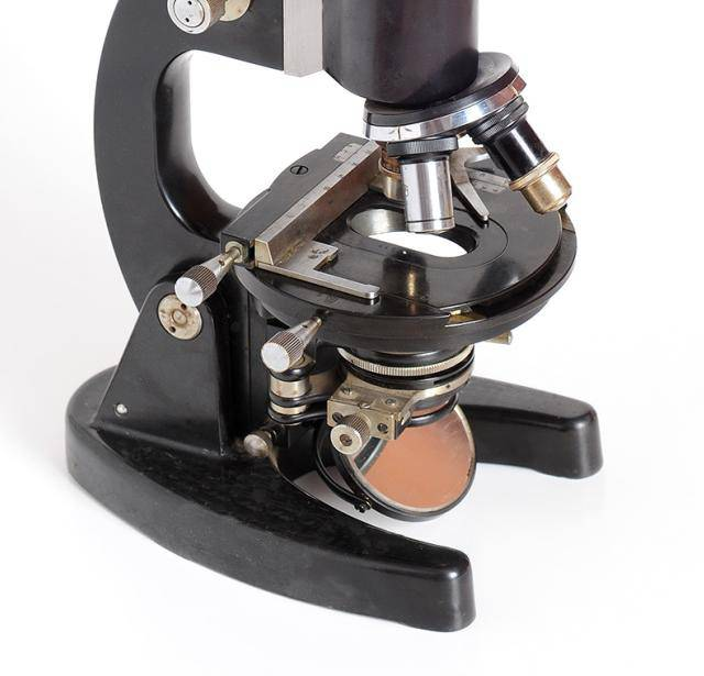 Microscope